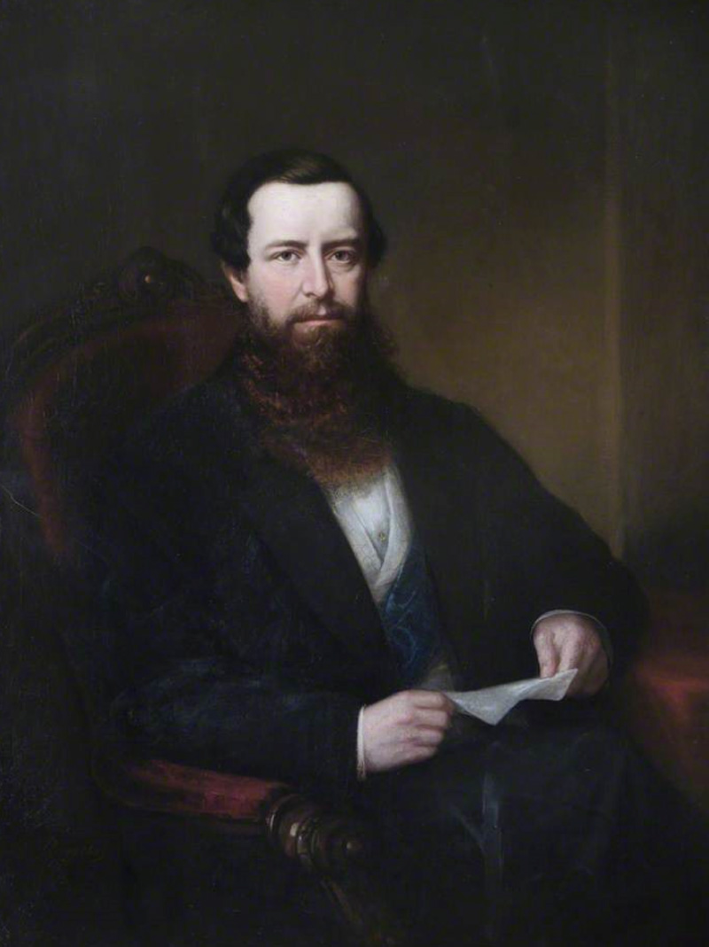 Portrait of George Robinson, 1st Marquess of Ripon (1827-1909)